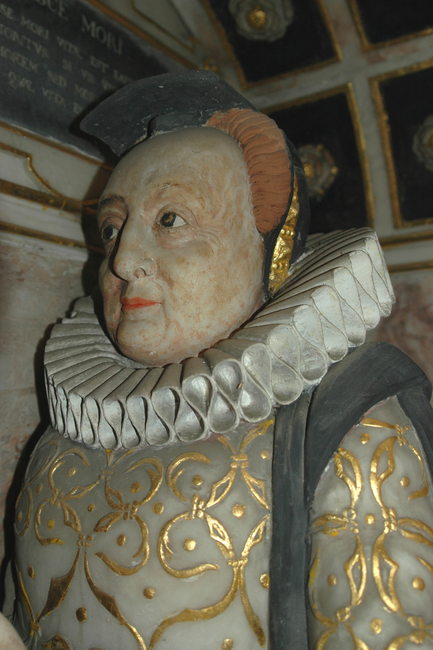 Closeup of Tesdale monument in St Mary's parish church, Glympton, Oxfordshire, showing part of alabaster statue of Maud Tesdale (d. 1616)